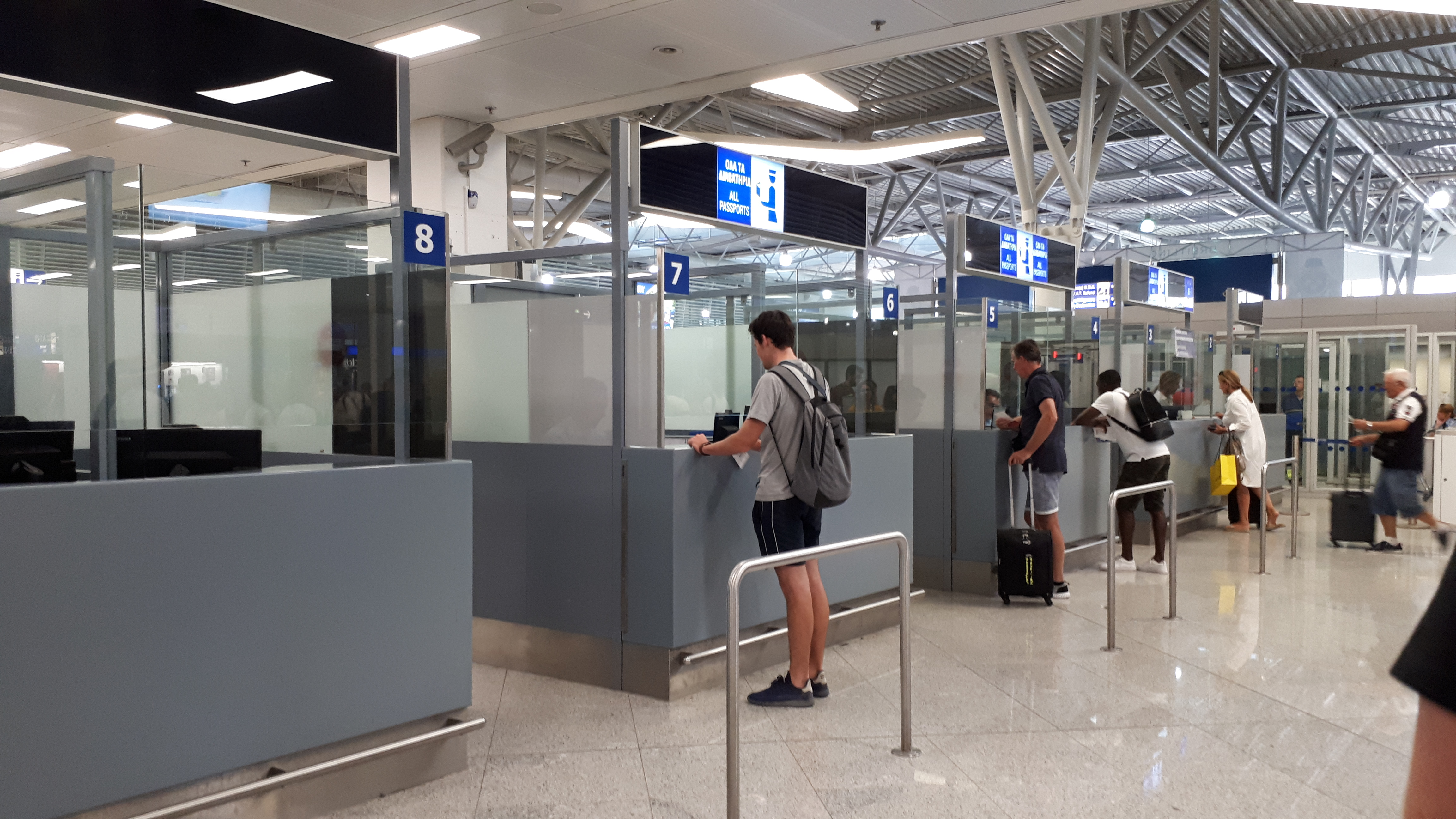 Passport control, Athens Airport. August 2018